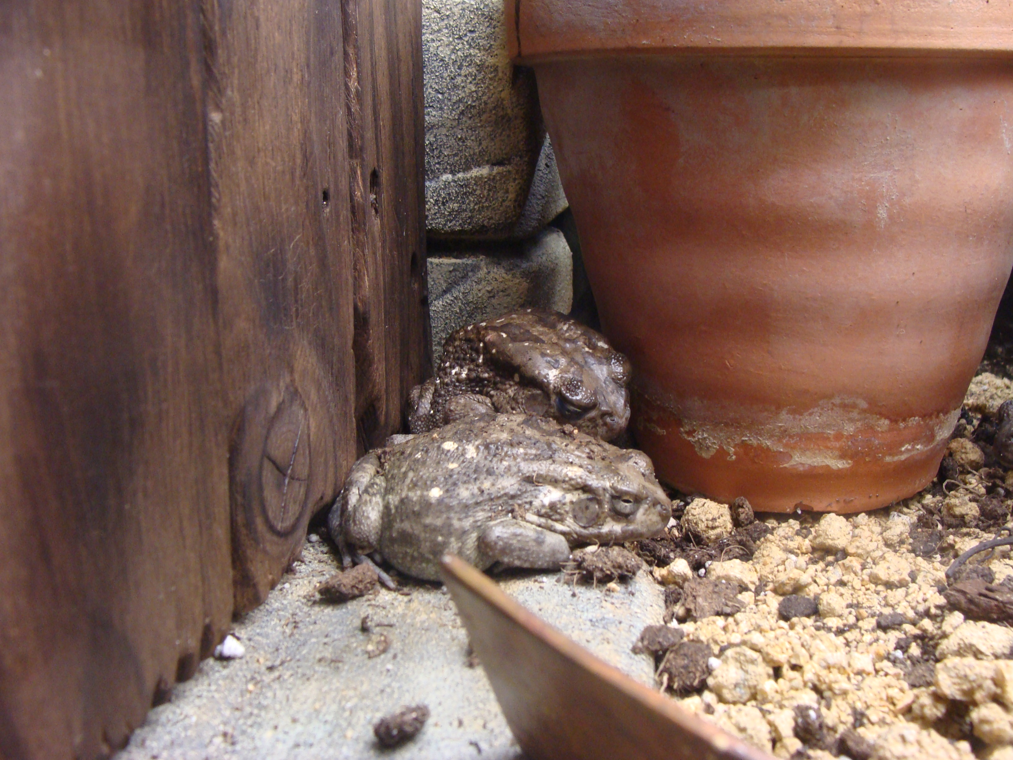 Amietophrynus regularis (African Common Toad) in the House of the Sciences), in Corunna, Galicia, Spain